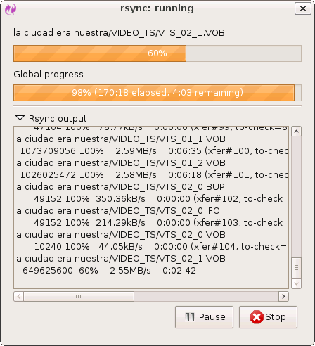 A screenshot of grsync, the graphical front end for rsync, a useful GPL command line tool for file transfers on GNU/linux systems. Here a backup is being made of the Documents folder to a remote network drive (which was mounted using smbmount). For instructions, see the tutorial at [1]